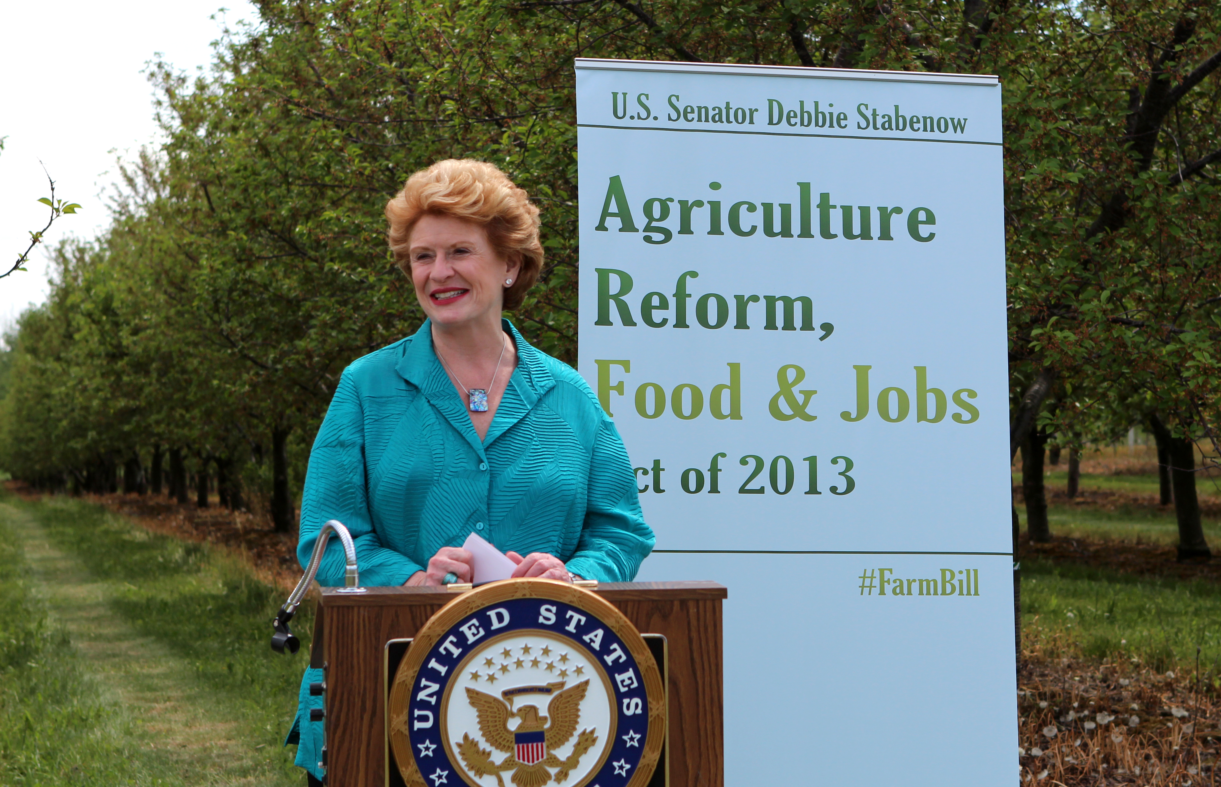 In Acme, MI to talk about the 2013 Farm Bill